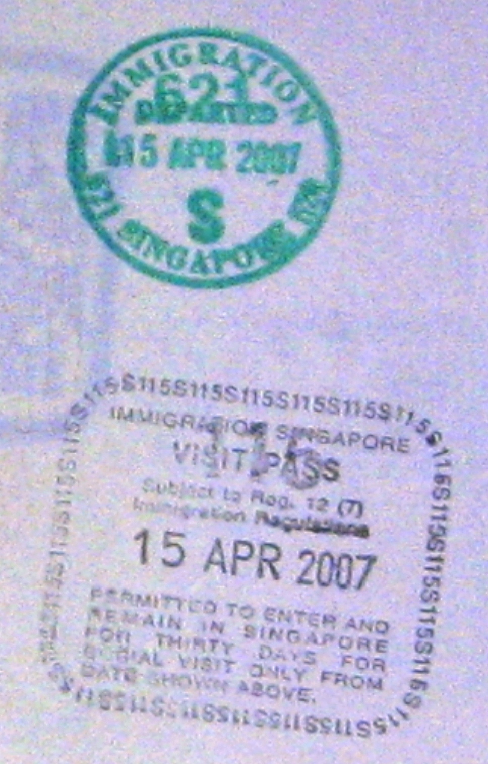 Immigration entry and exit stamps dated 15 April 2007 affixed in a passport at the Singapore Cruises Centre.